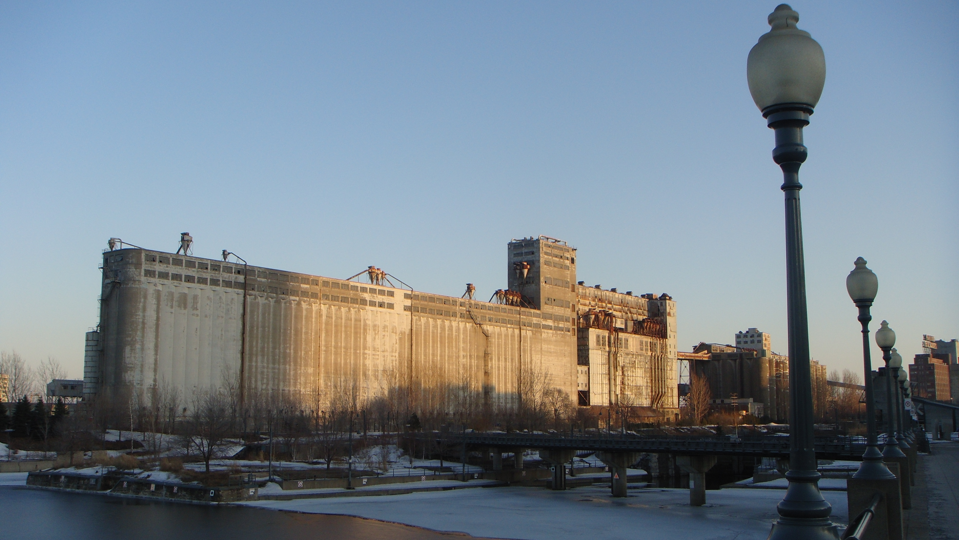 Grain silos, Montreal, Quebec